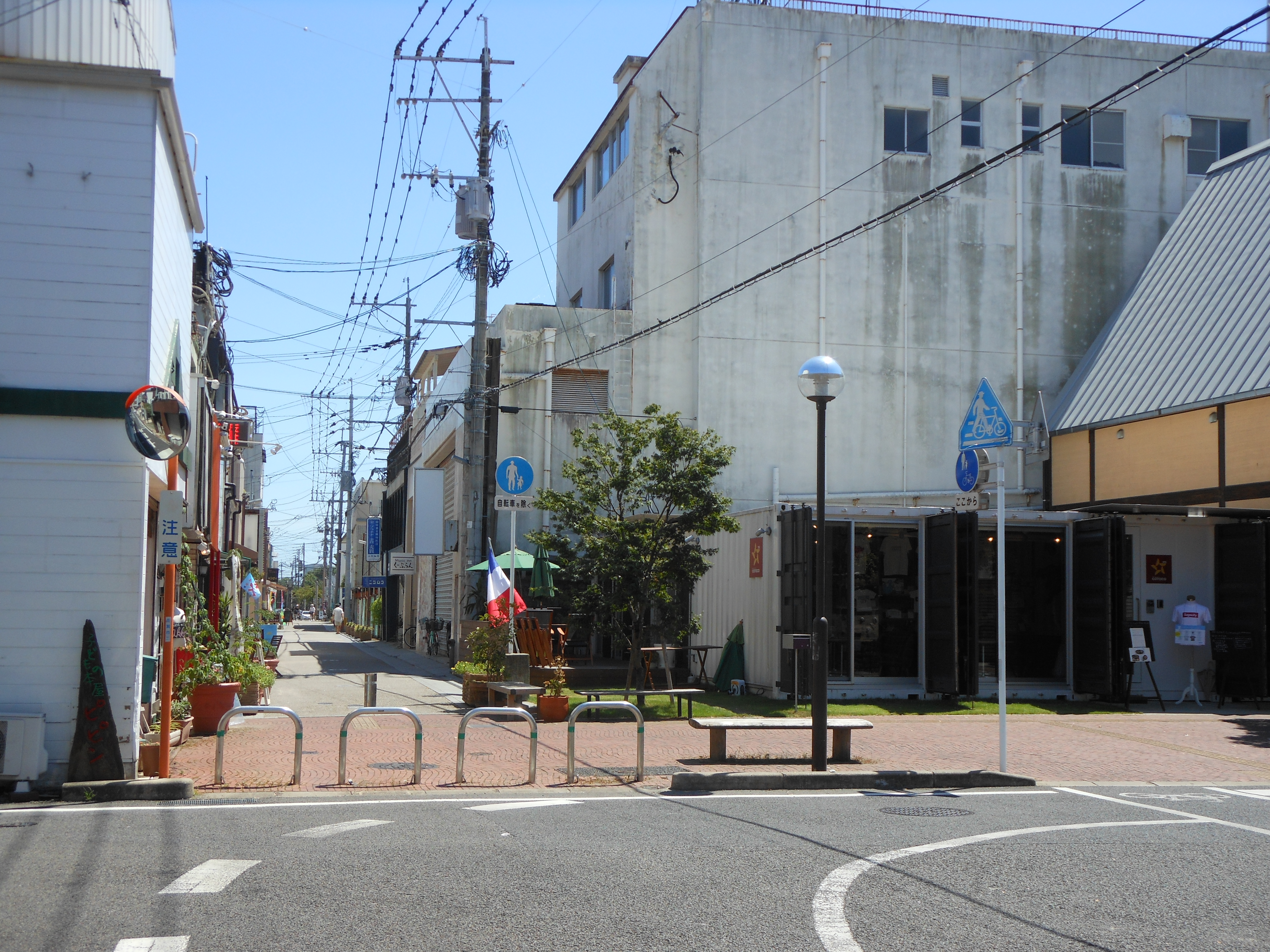 North of Gofukumotomachi Shopping Street, Saga city, Saga prefecture.